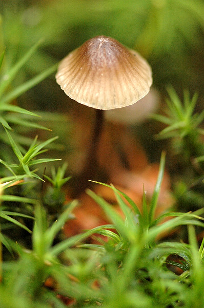 Mycena viridimarginata from Commanster, Belgium. If you think this is a different taxon, please contact James Lindsey.